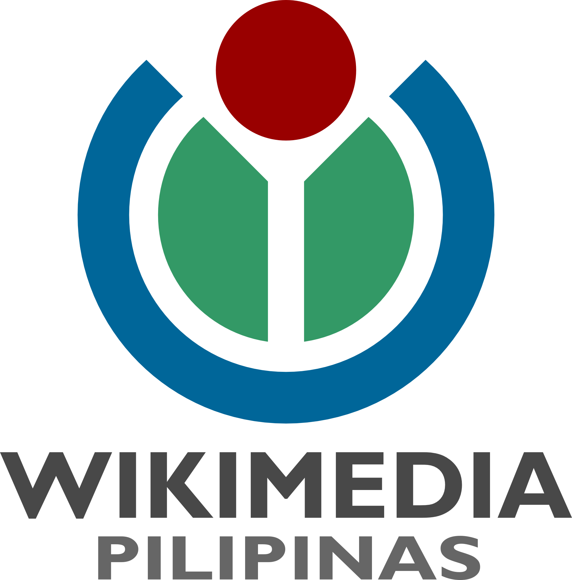 Wikimedia-guidelines-compliant ogo for the Wikimedia Philippines; subtext in Tagalog name of the Philippines